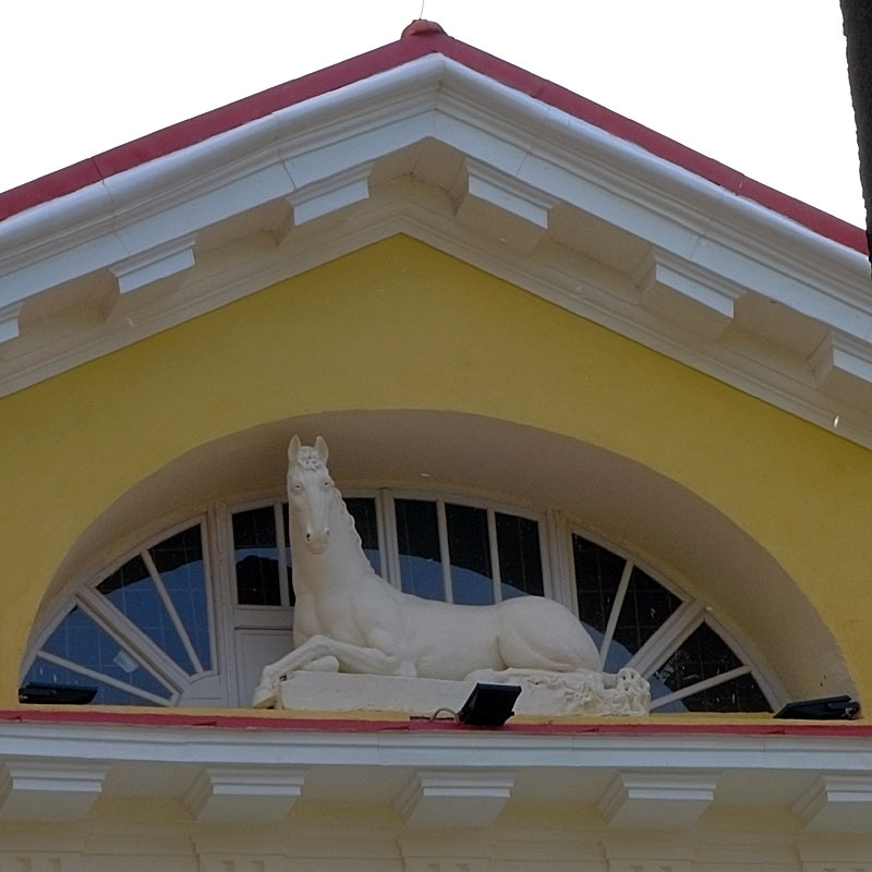 Arsenal of Seniavski-Family in Lviv, Ukraine